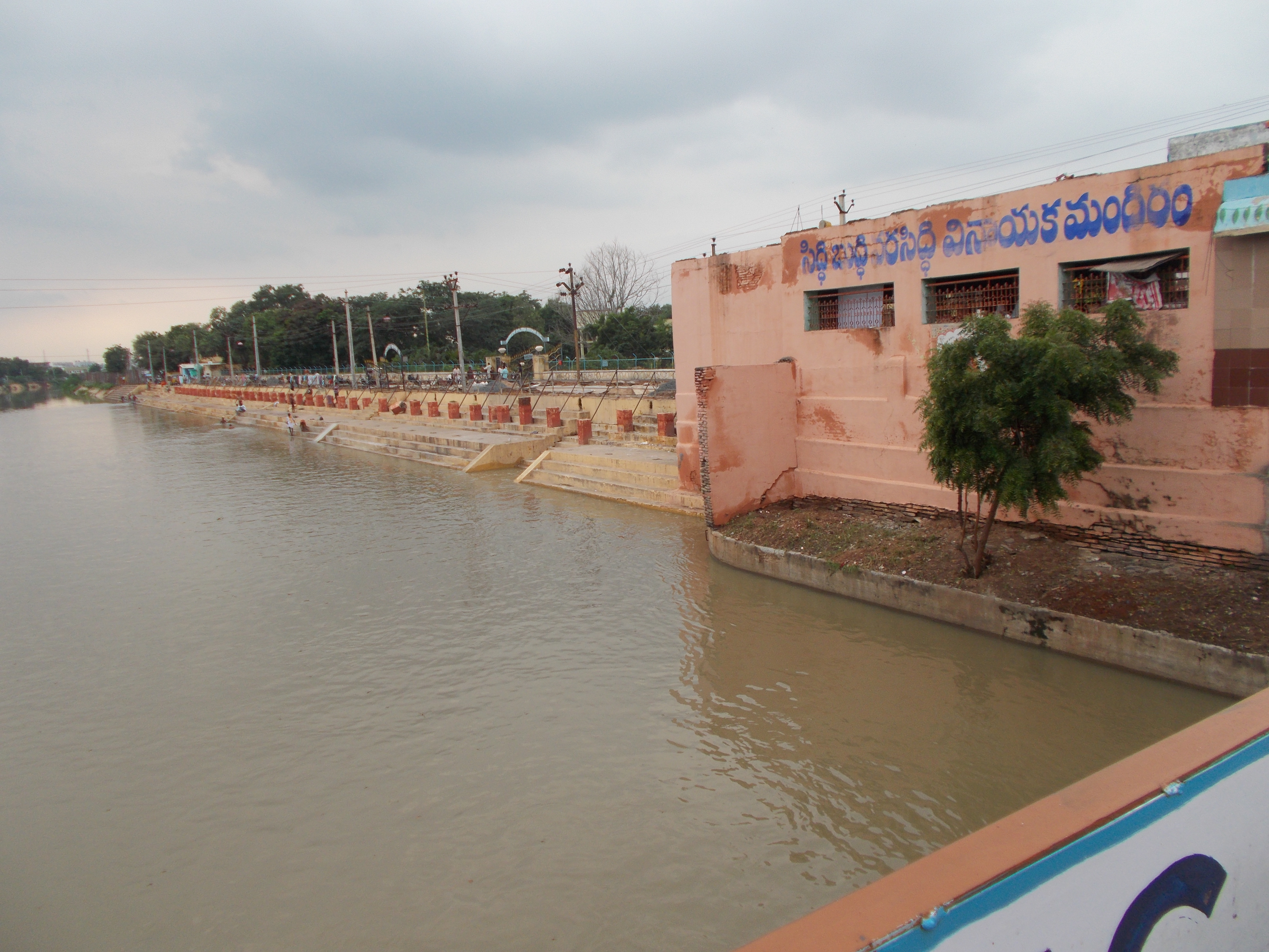 KC Canal beside Ganesh Temple